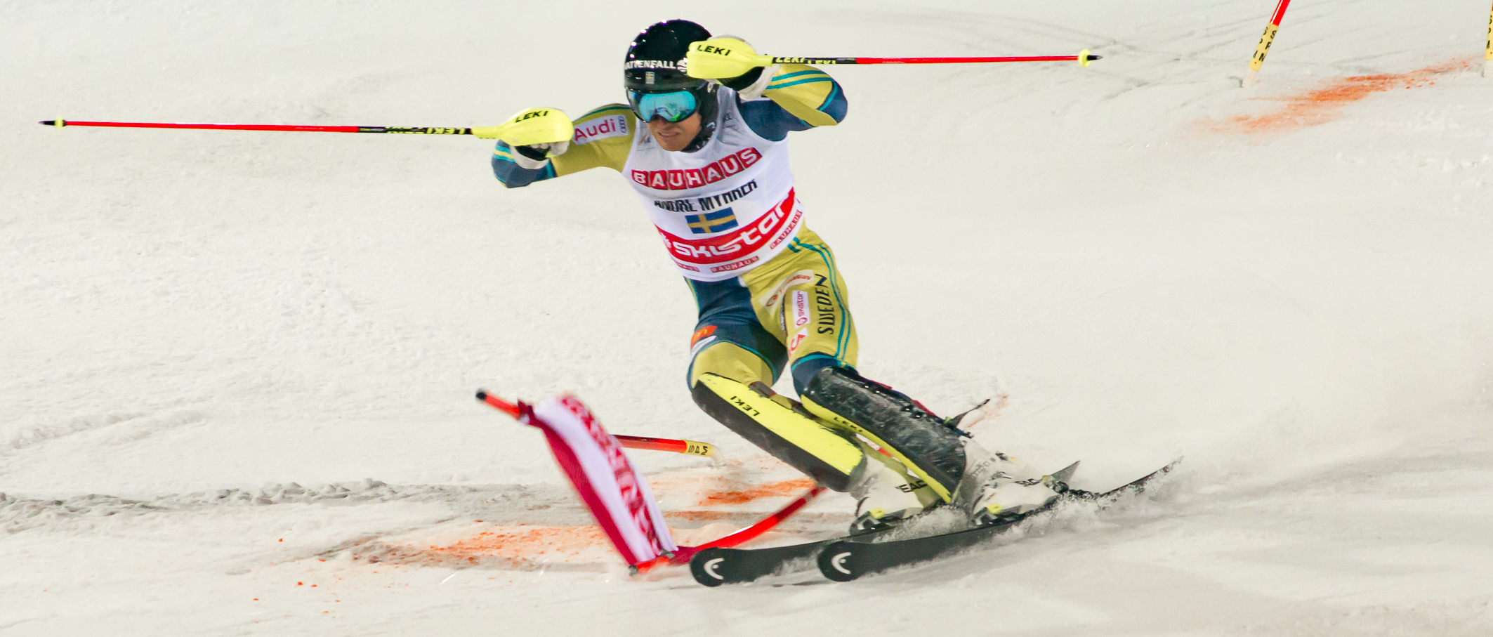 Andre Myrher Photo by Roland Osbeck